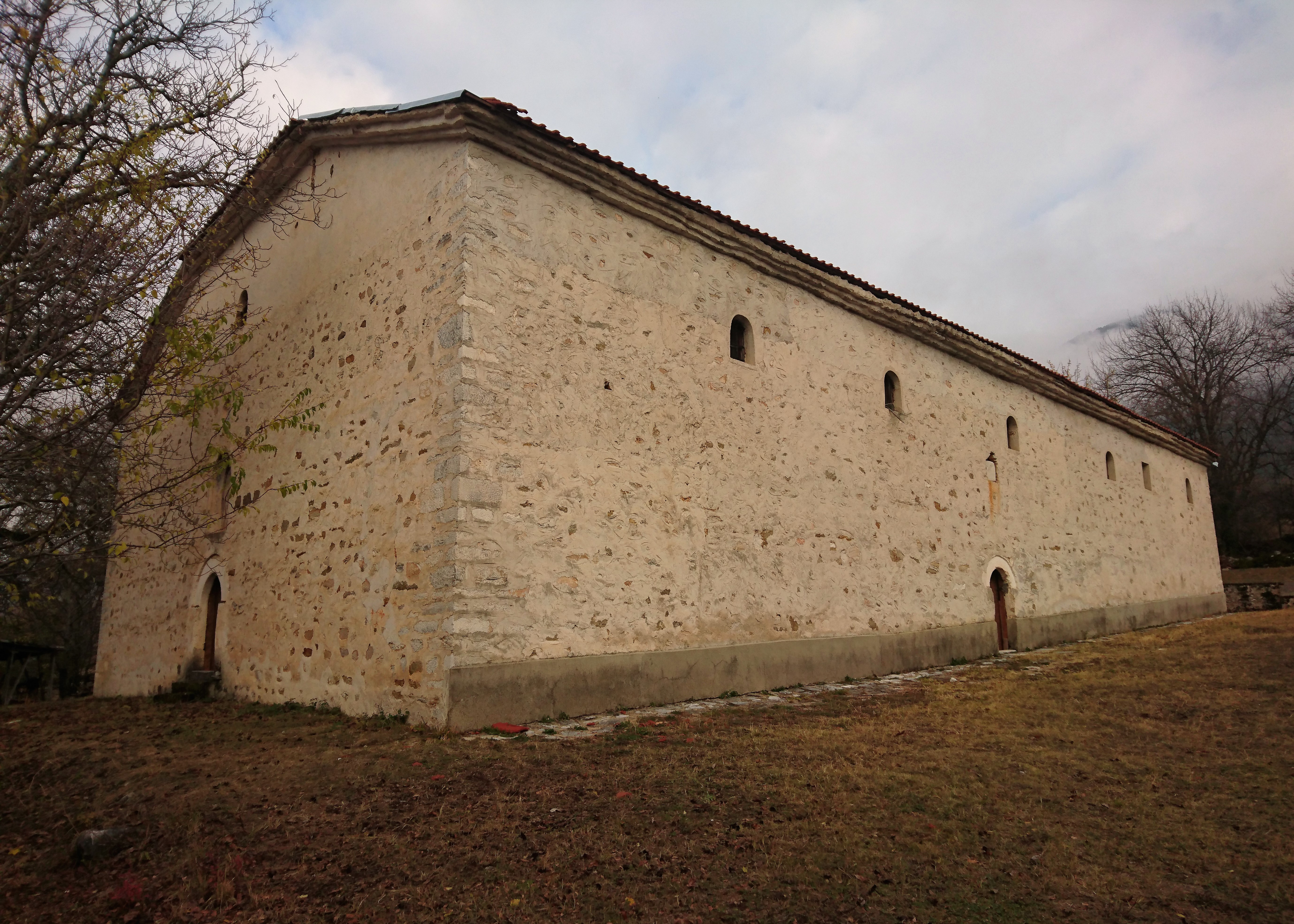 The Assumption Church near Goleshovo, Southwestern Bulgaria